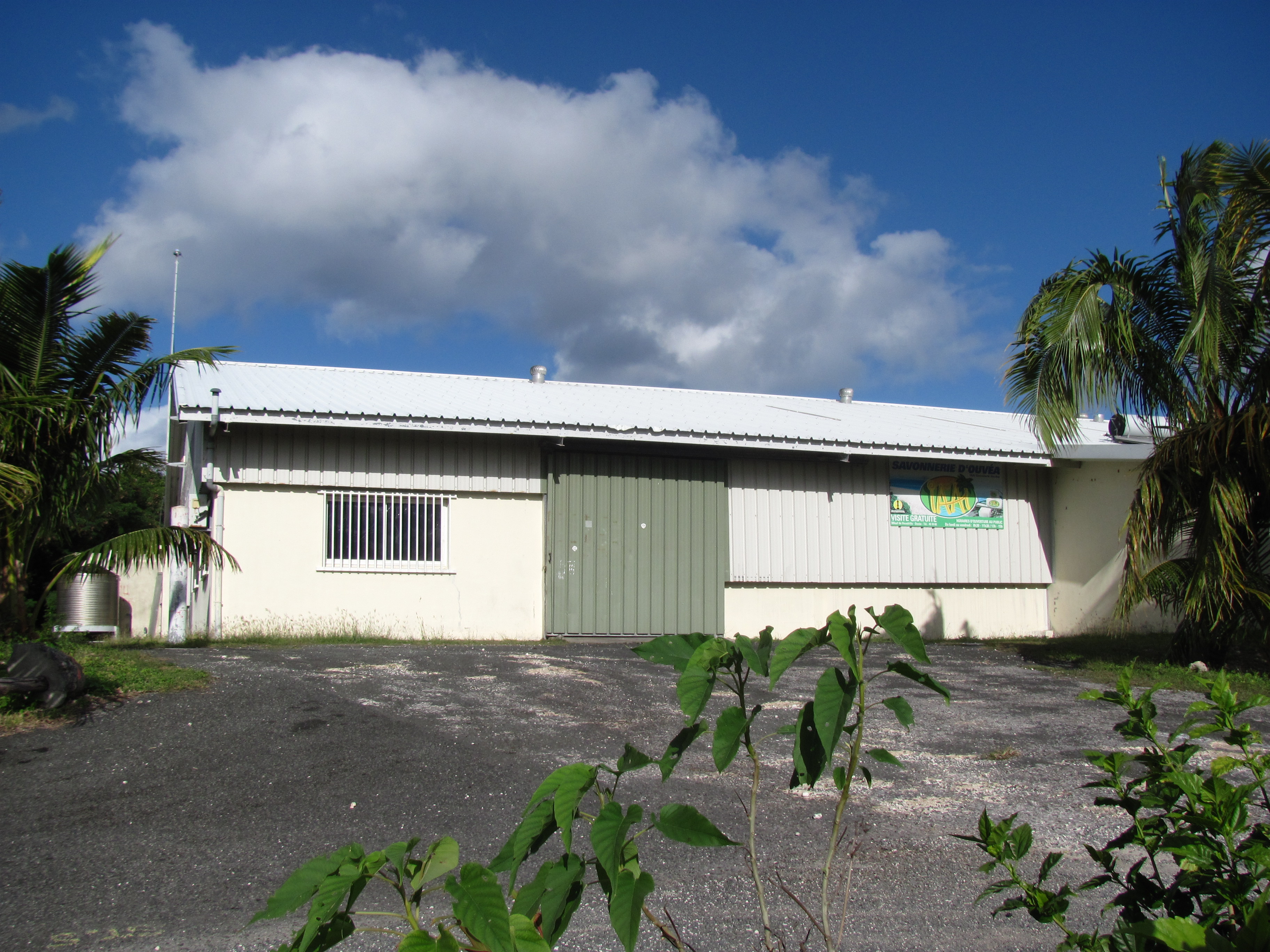 Soap factory, Wadrilla, Ouvéa, New Caledonia